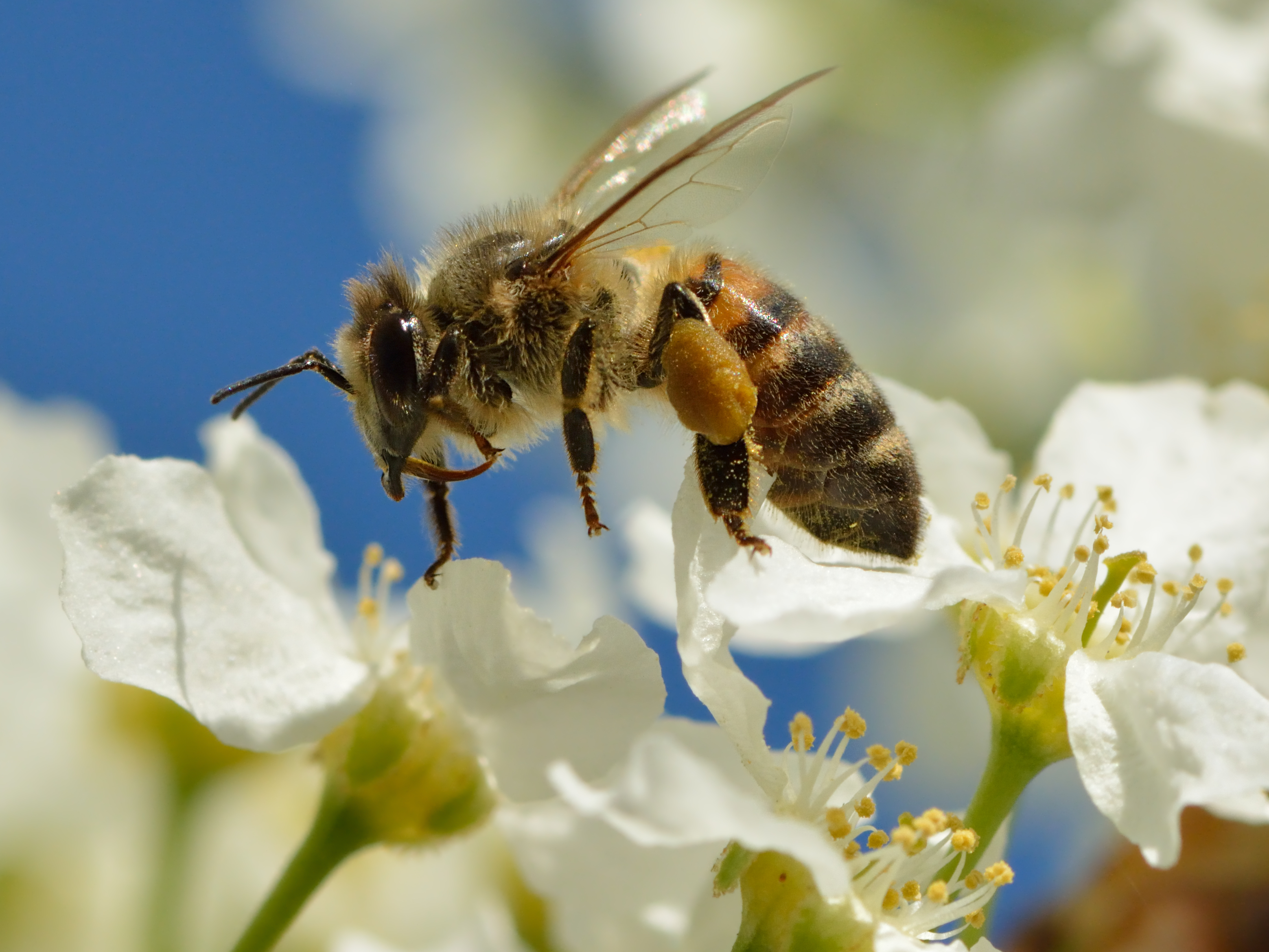 Honey bee (Apis mellifera) on the bird cherry (Prunus padus). Keila, Northwestern Estonia.